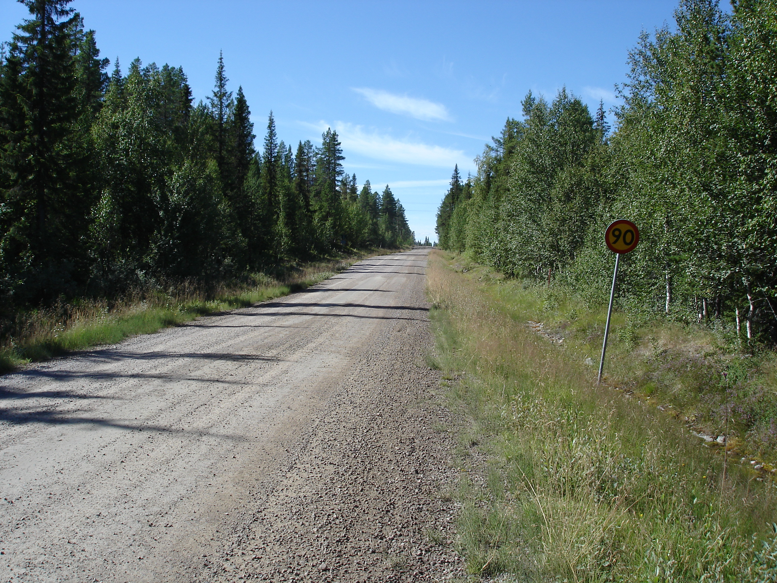 The most eastern part of road BD613 in Lappland, Sweden. It is located between Sorsele and Arjeplog. Photo: Sebbe 2006-08-05